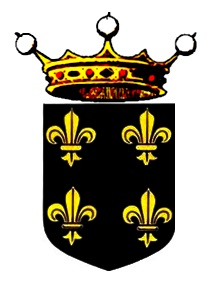 Coat of arms of the Viscount of Alvarado